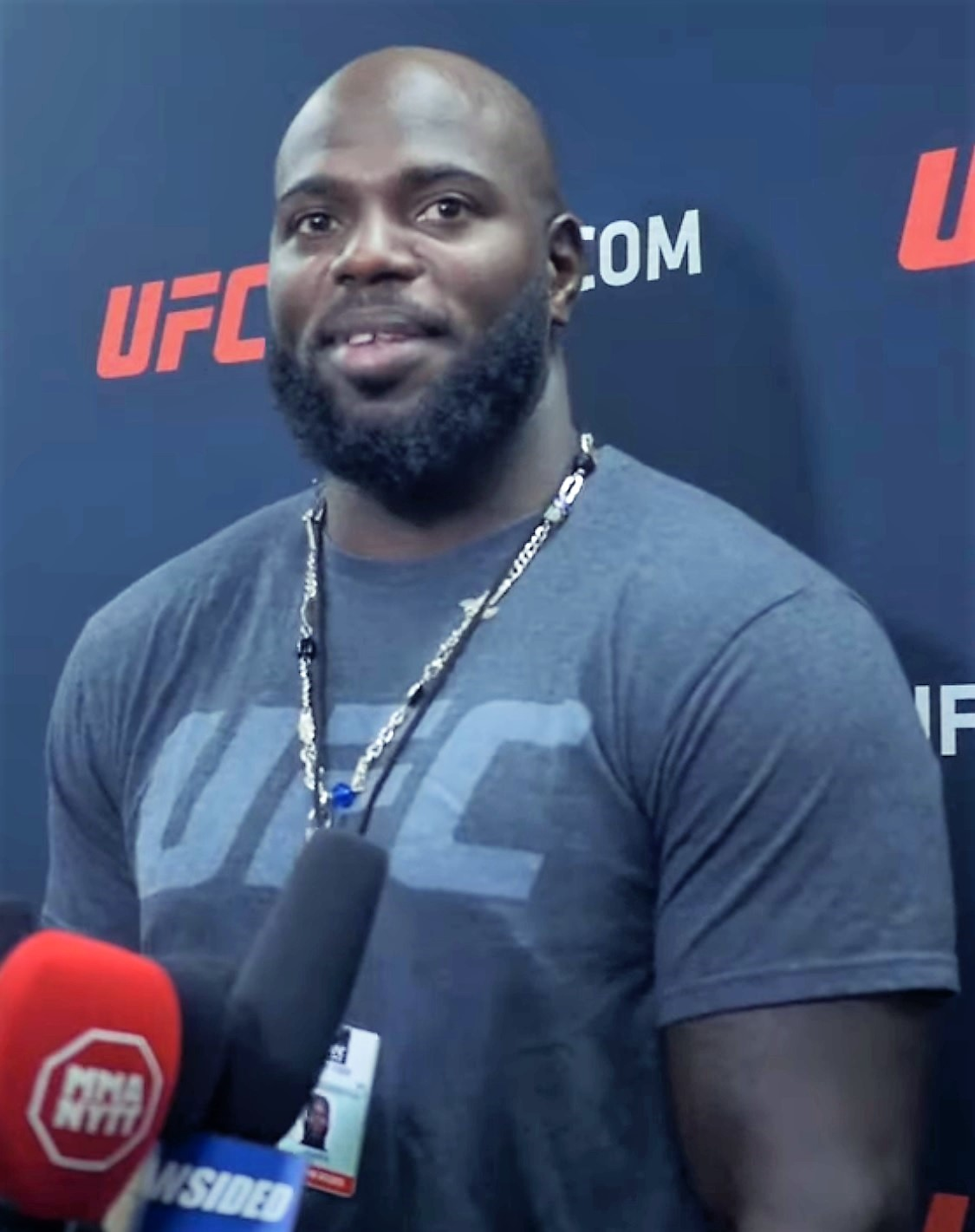 Jairzinho Rozenstruik ready to step in against Alistair Overeem | UFC 244 Surinamese heavyweight Jairzinho Rozenstruik achieved the biggest win of his career at UFC 244, knocking out former UFC champ Andrei Arlovski in less than 30 seconds. While a man of few words, he did say that he is ready to step in and face Alistair Overeem on short notice. Visit Europe's biggest MMA website Follow us on our Social Media channels: Facebook: Instagram: Twitter